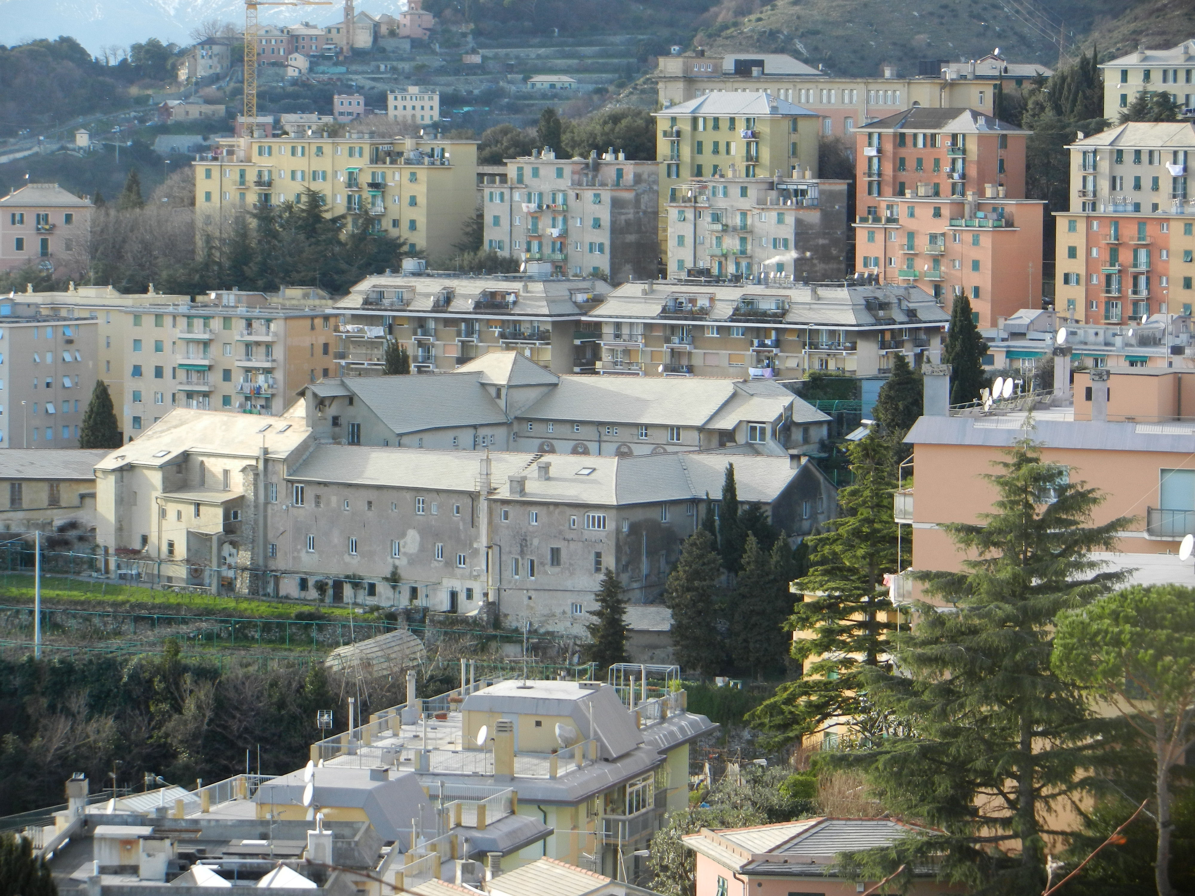 Genoa, Italy, quarter of Castelletto, monastery of San Barnaba